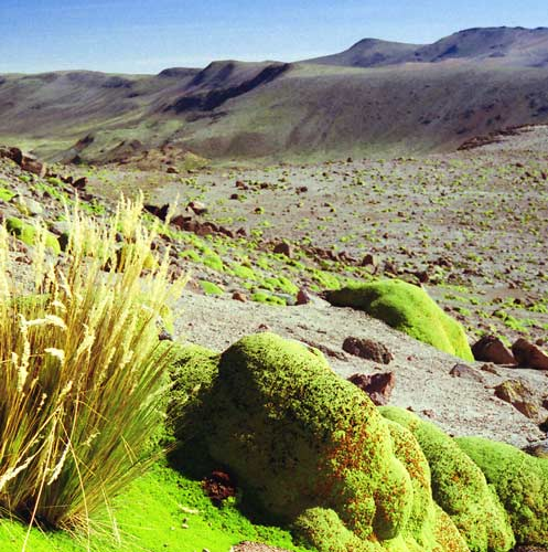 Azorella compacta Photo taken by Professor Bikey Bike, May 2002, on the slopes of Nevado Coropuna, Peru.